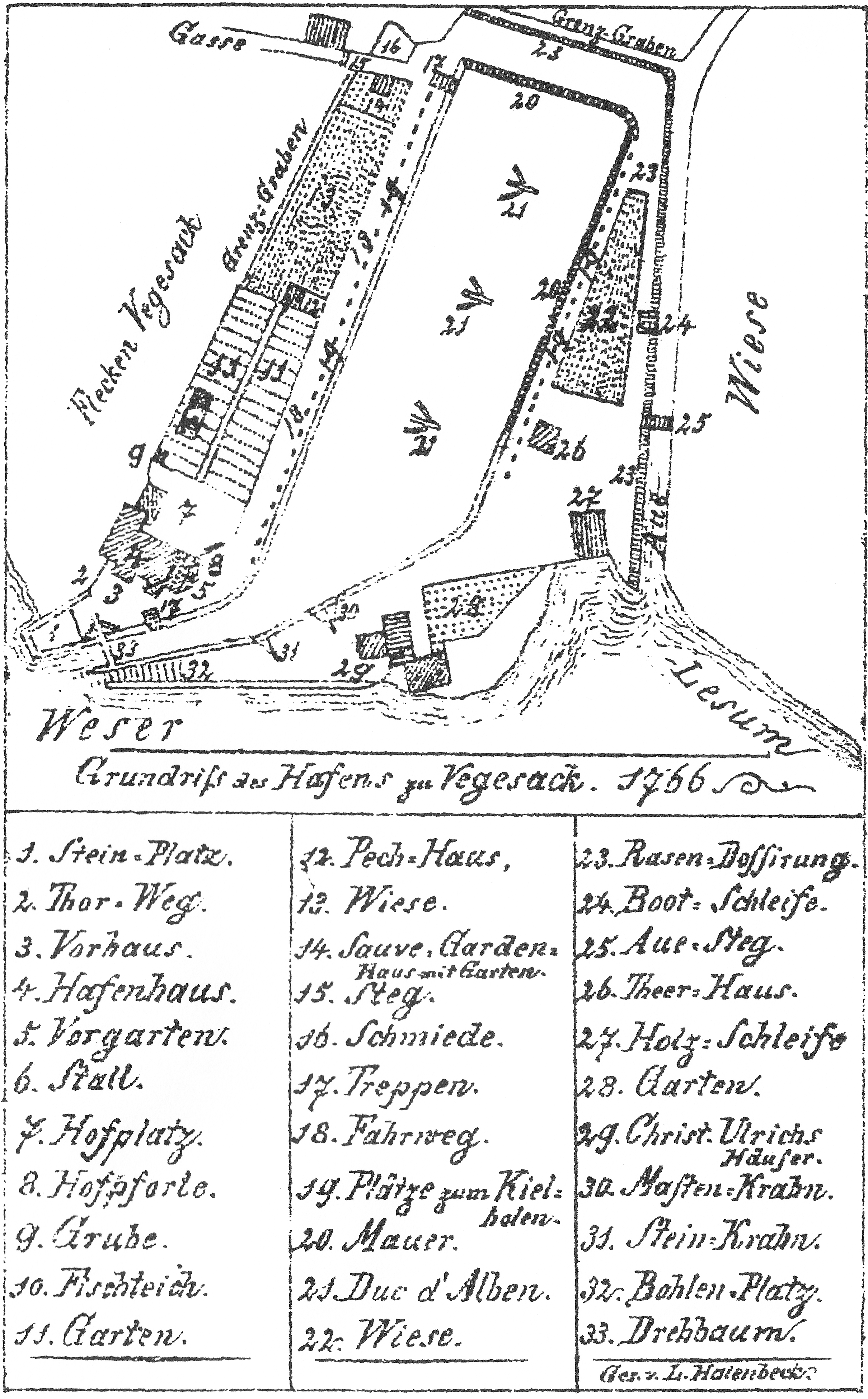 ground-plan of Vegesack harbour in the year of 1766